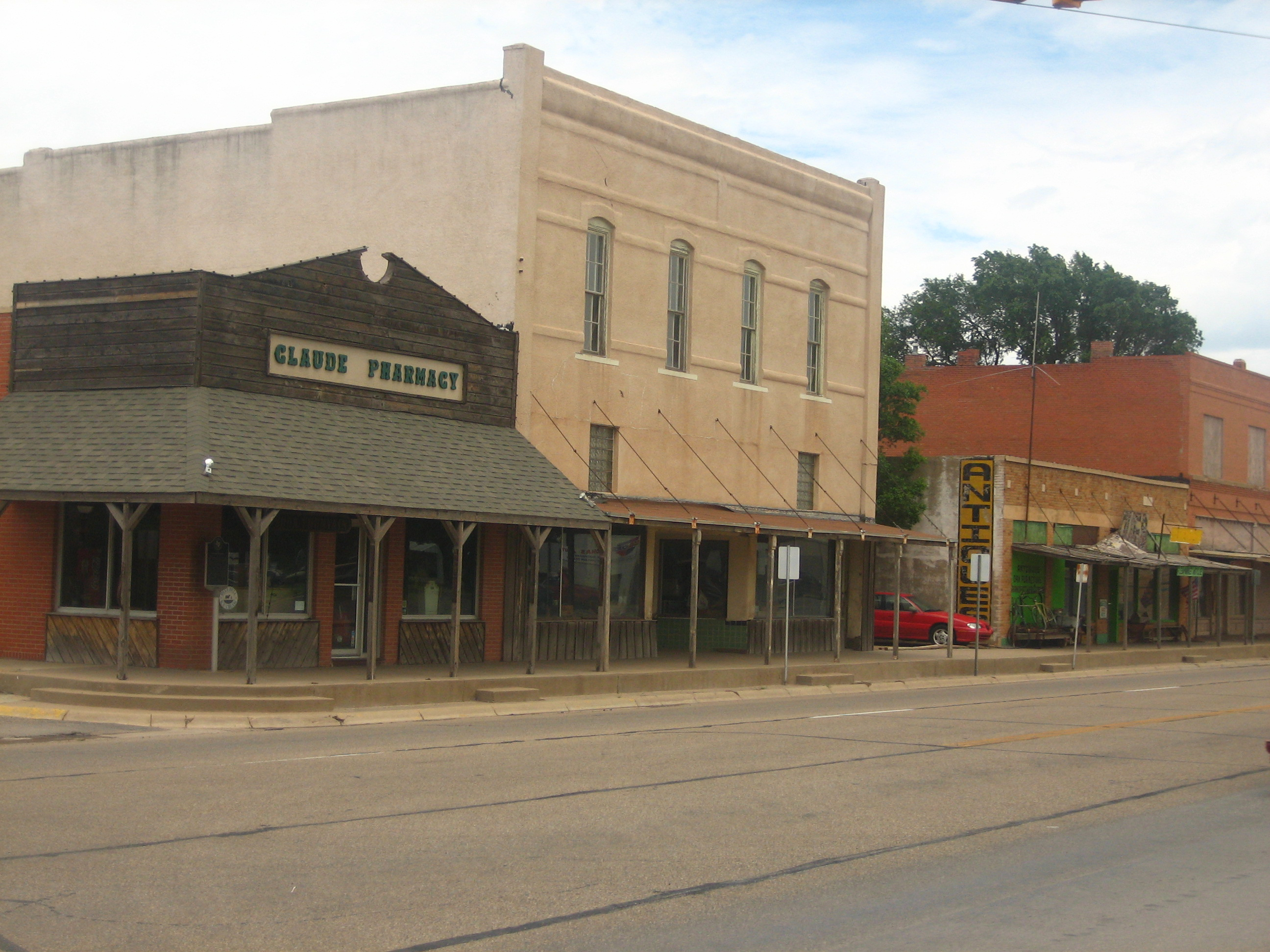 North side of 1st Street (U.S. Route 287), Claude, Texas. At left, 101 N. Trice, the old Claude Pharmacy, Antique Soda Fountain & Flower Shop building, which later collapsed in July 2010.